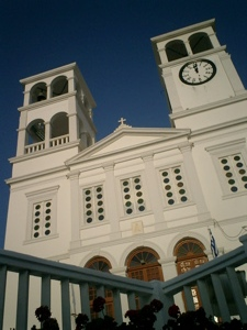 Church of Tripiti.